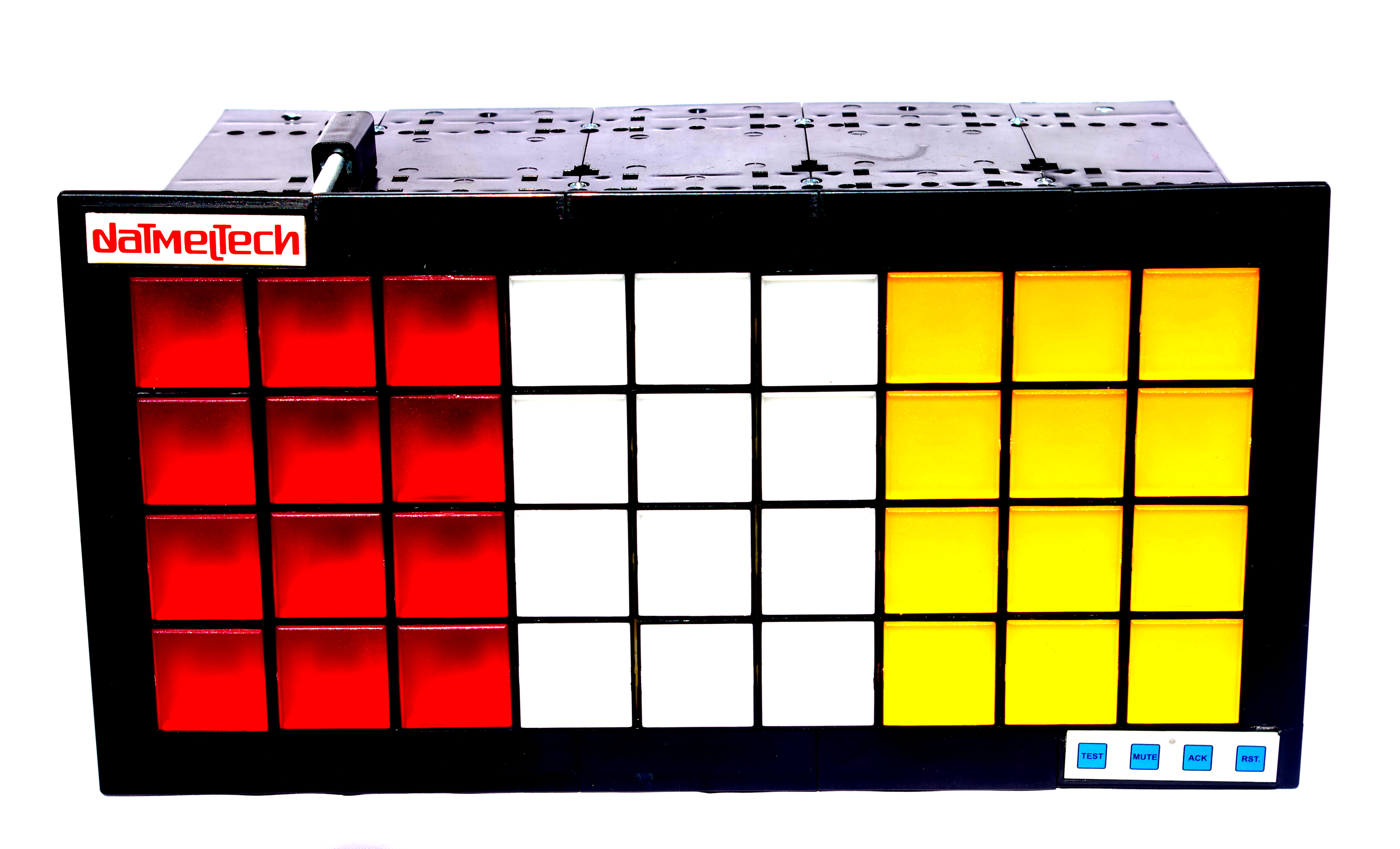 An example of an alarm annunciator commonly used in control and relay panels.